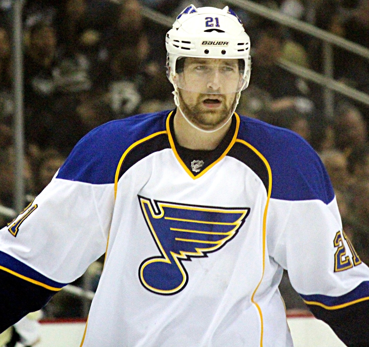 St. Louis Blues forward Patrik Berglund during a game against the Pittsburgh Penguins, March 23, 2014, at Consol Energy Center in Pittsburgh, PA.